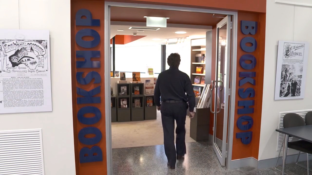 A customer walks in the entrance to the Aboriginal Studies Press (ASP) bookshop at the Australian Institute of Aboriginal and Torres Strait Islander Studies (AIATSIS), Acton, ACT, Australia